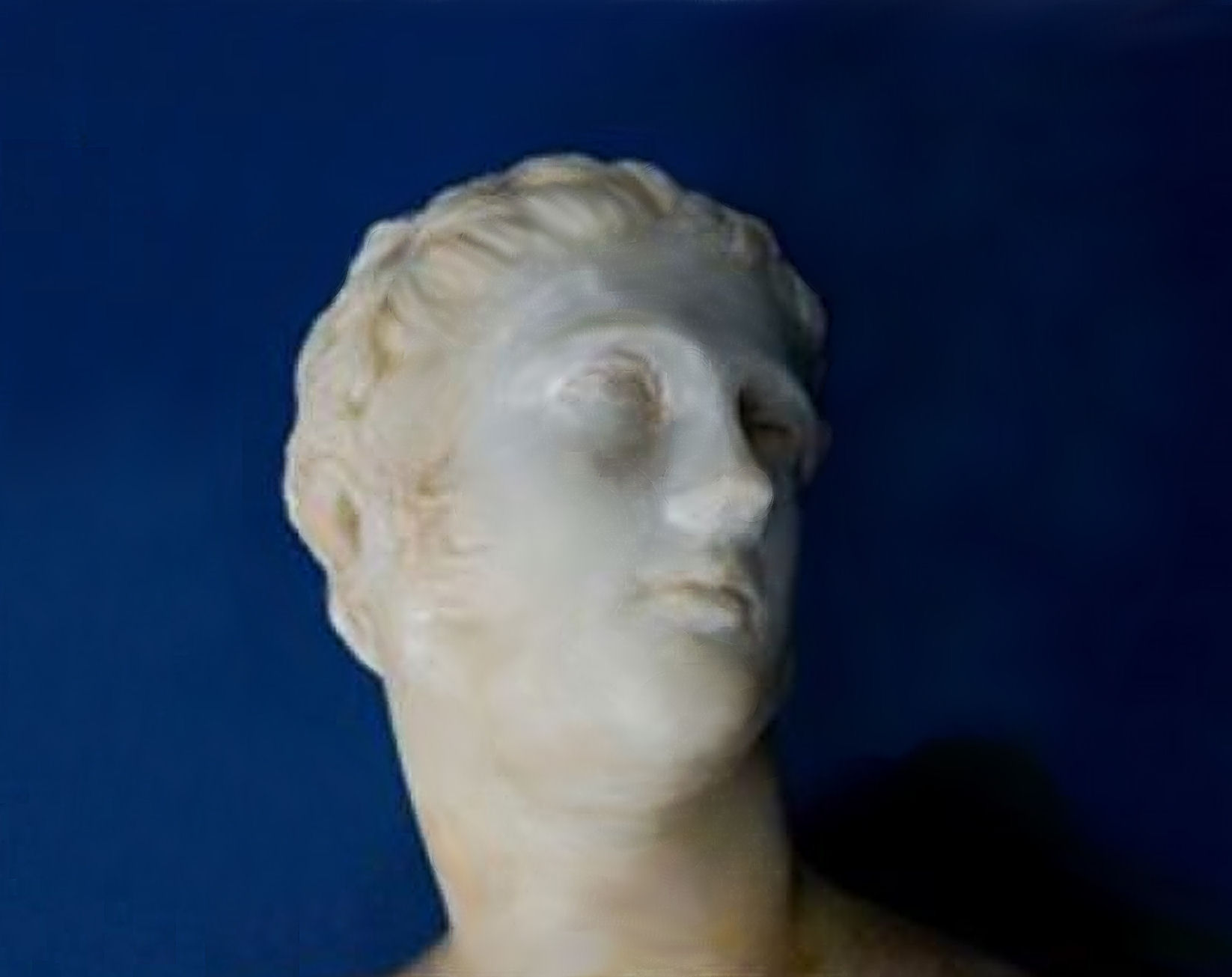 Alexander the Great statue head discoverd in 2009 by Mrs. Limneou-Papakosta now in Alexandria National Museum